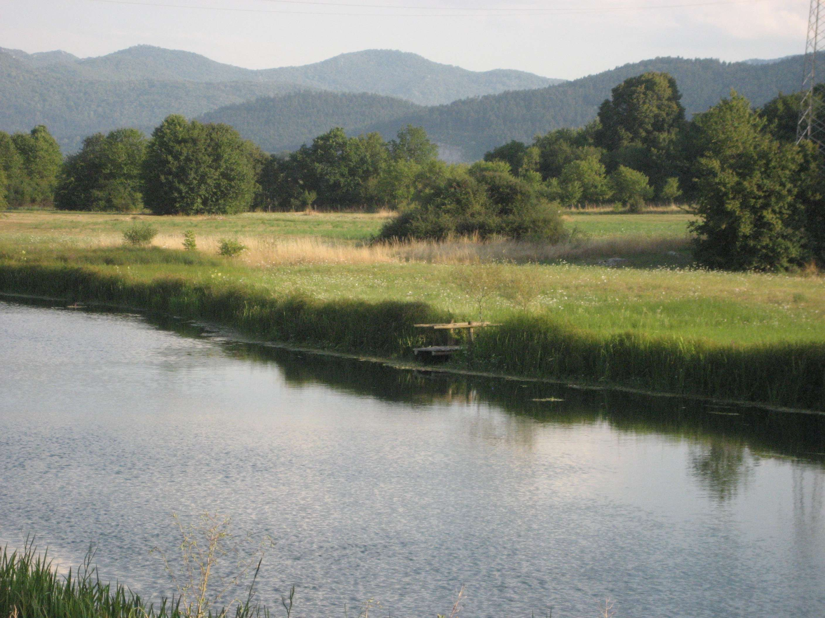 Gacko Polje, karst plain with several karst springs, ca. 65km north of Dubrovnik in Croatia.